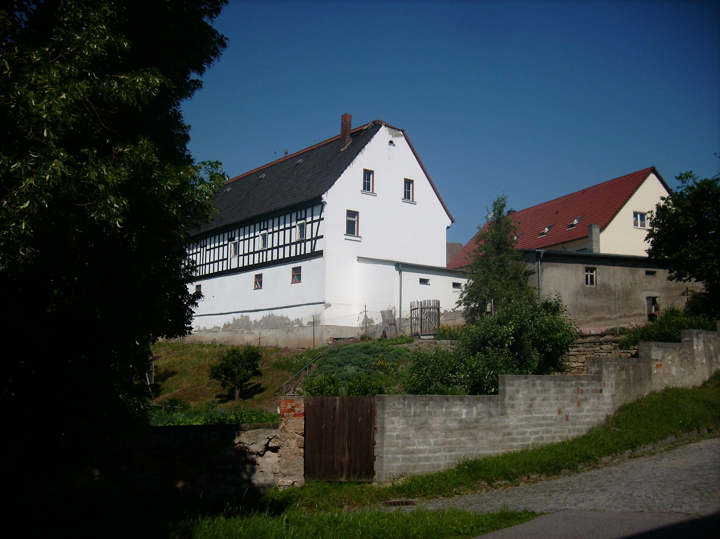 Farmstead at August-Bebel-Platz in Fockendorf (district of Altenburger Land, Thuringia)